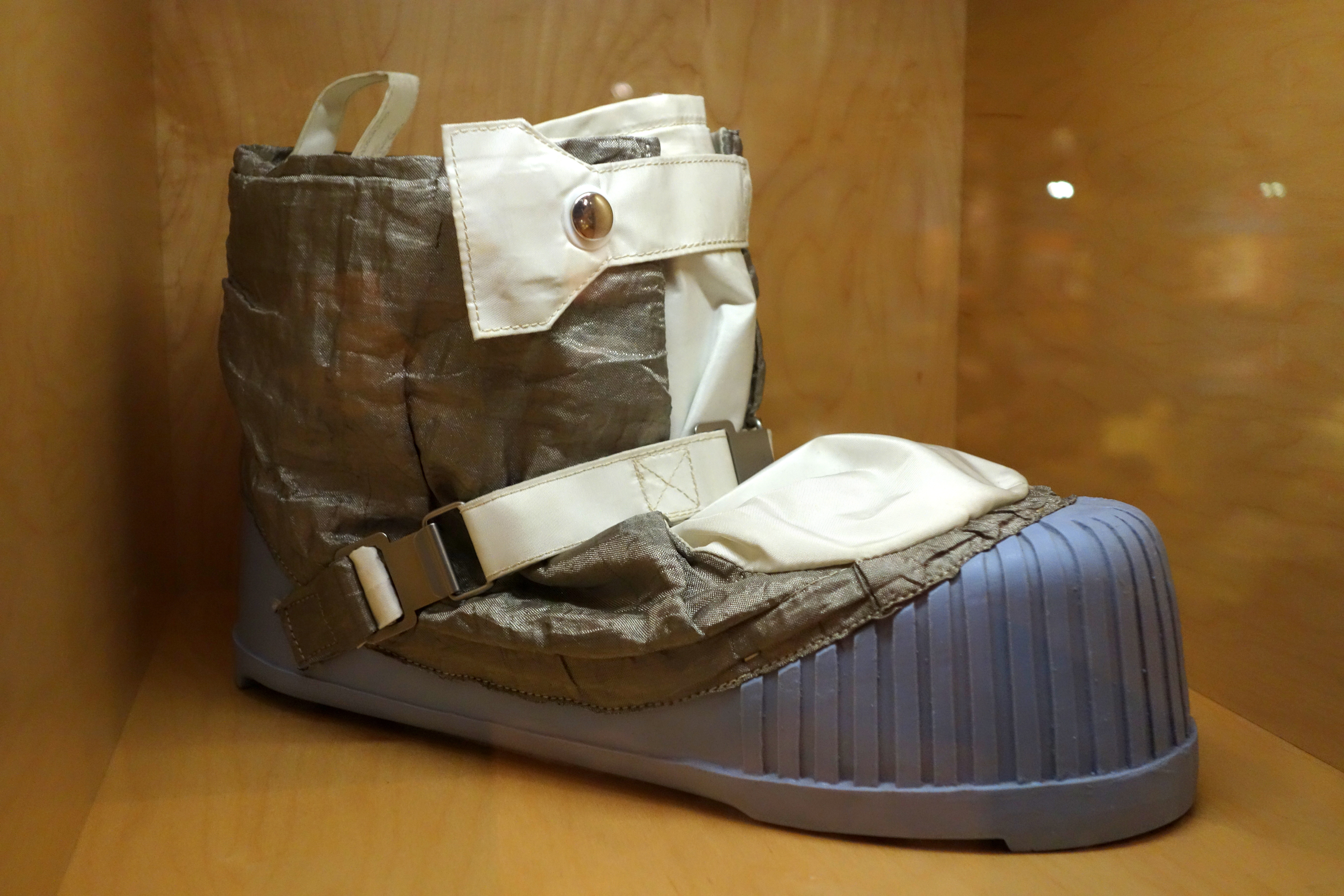 Exhibit in the Bata Shoe Museum, Toronto, Ontario, Canada. The museum permitted photography without restriction.